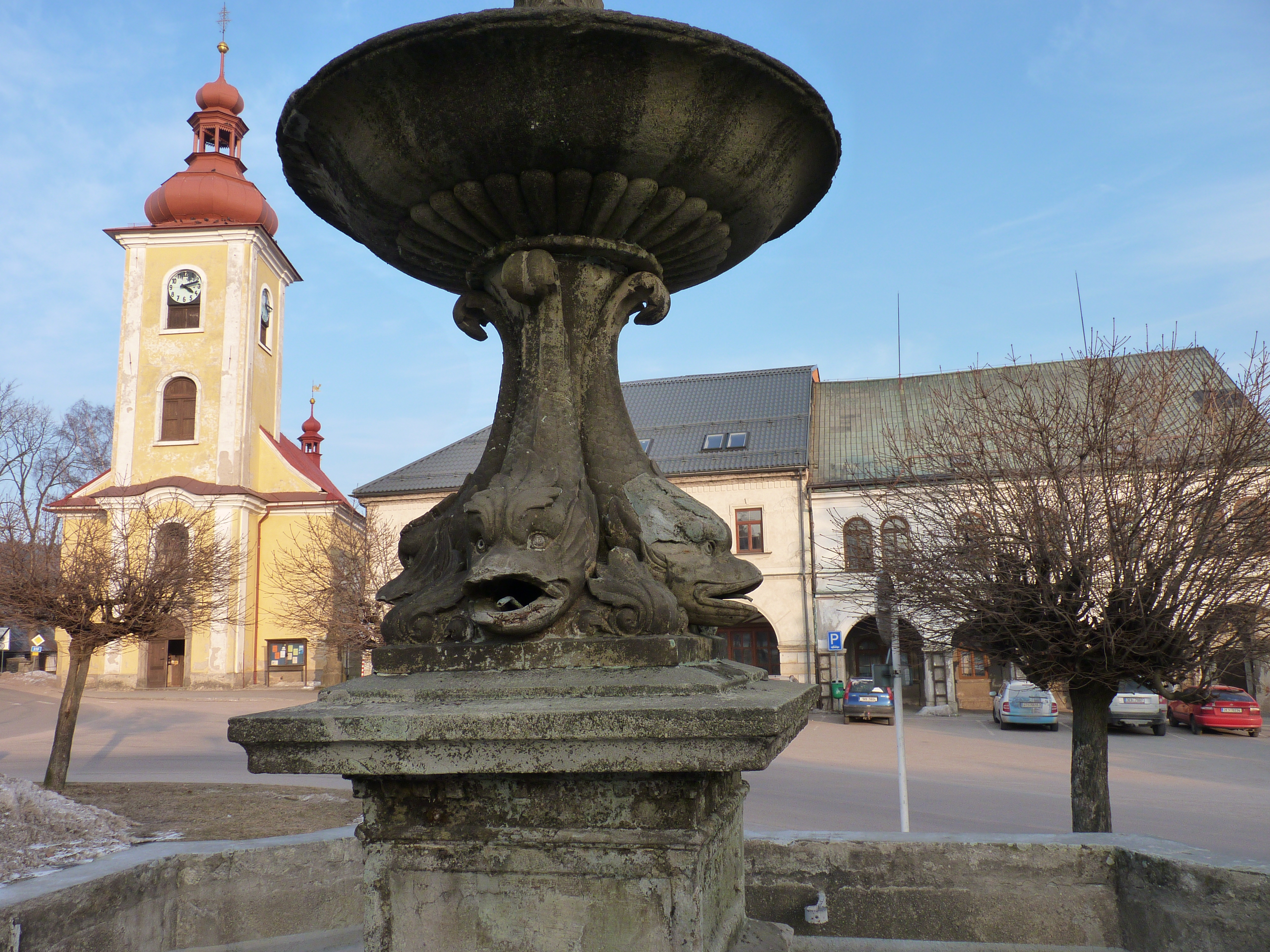 Rokytnice v Orlických horách